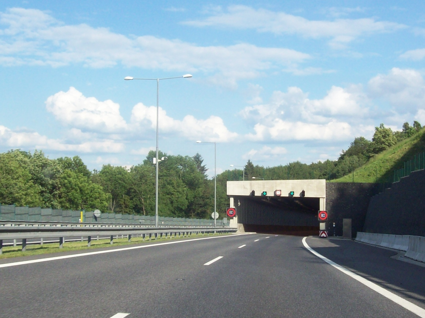 Motorway D8, Libouchec tunnel, nord